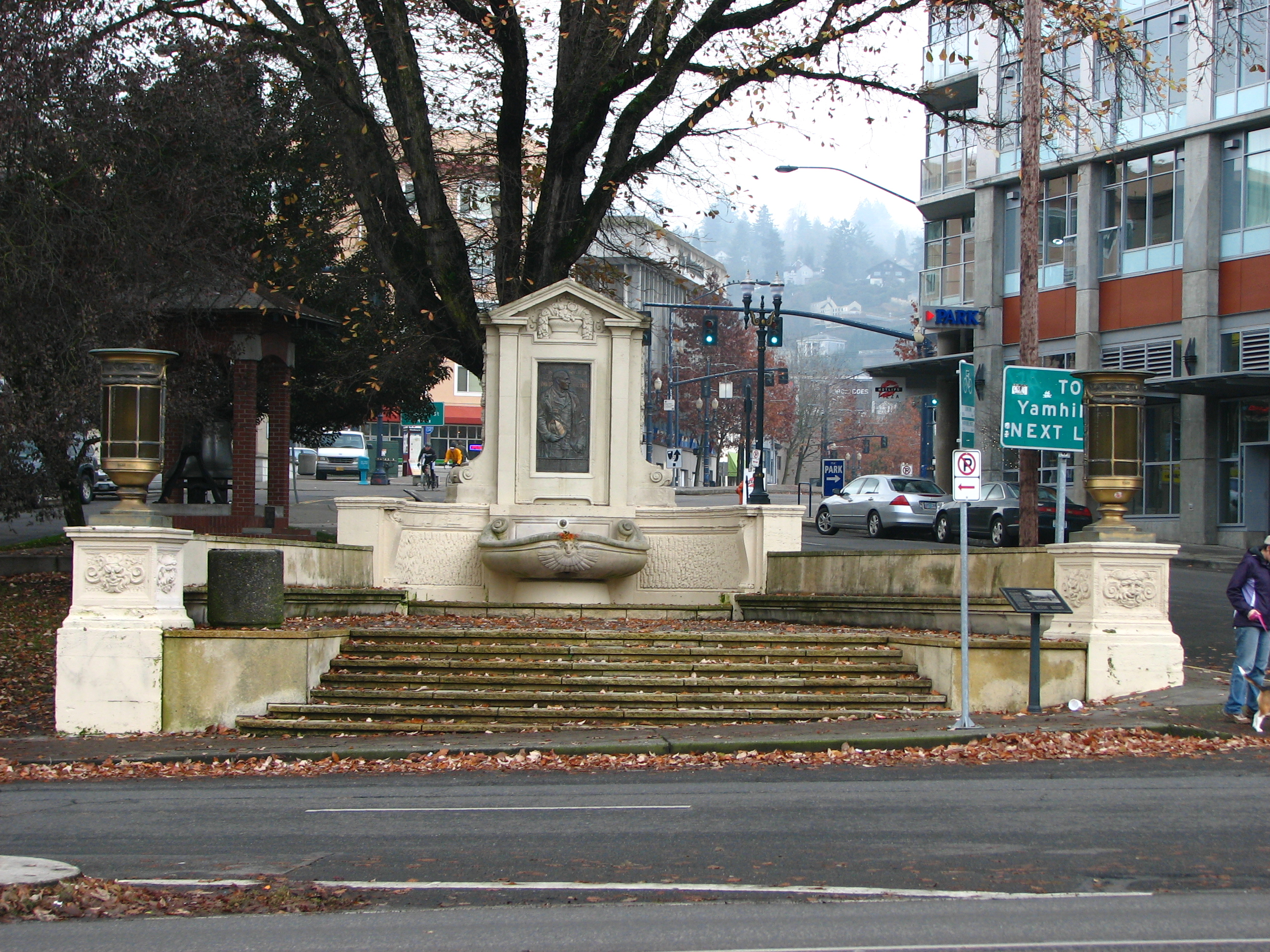 The historic David Campbell Memorial (erected 1928), located in Portland Firefighters Park, 1800 W Burnside Street, Portland, Oregon, United States, is listed on the US National Register of Historic Places (NRHP). NRHP reference number 10000802